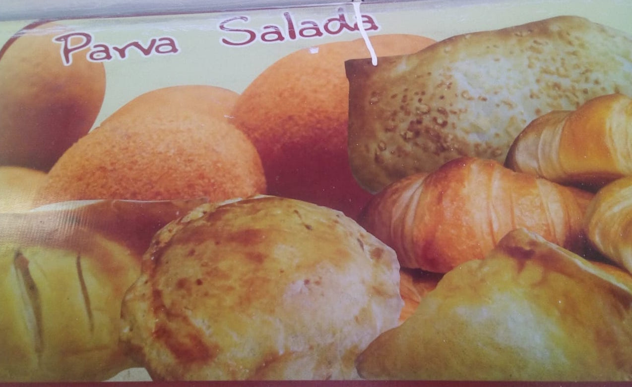 pastry from Medellín Colombia using the word parva